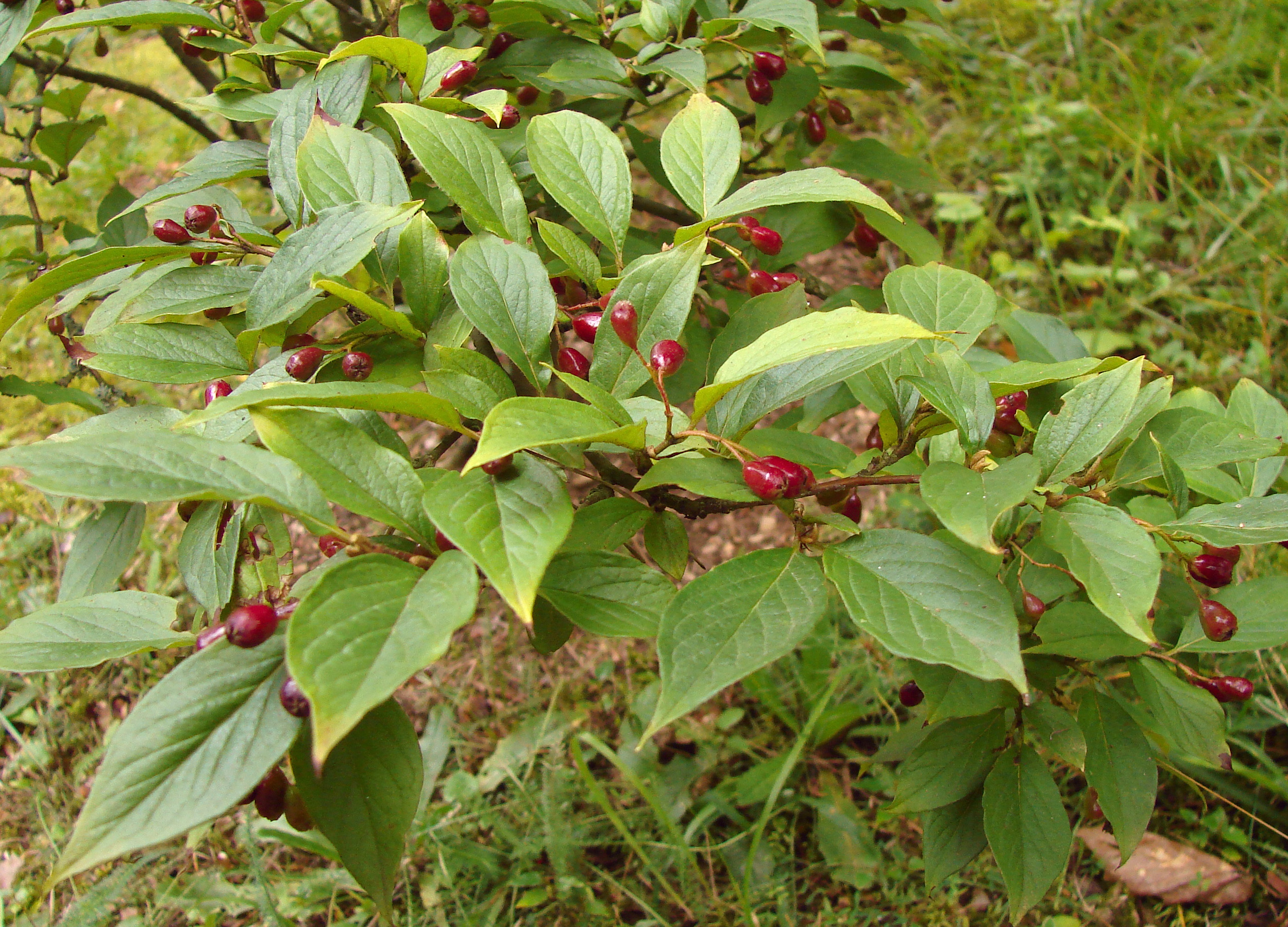 Cotoneaster foveolatus